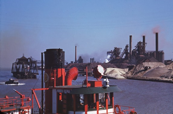 The fireboat Joseph Medill and 3 stacks of Youngstown S + T. - South Chicago